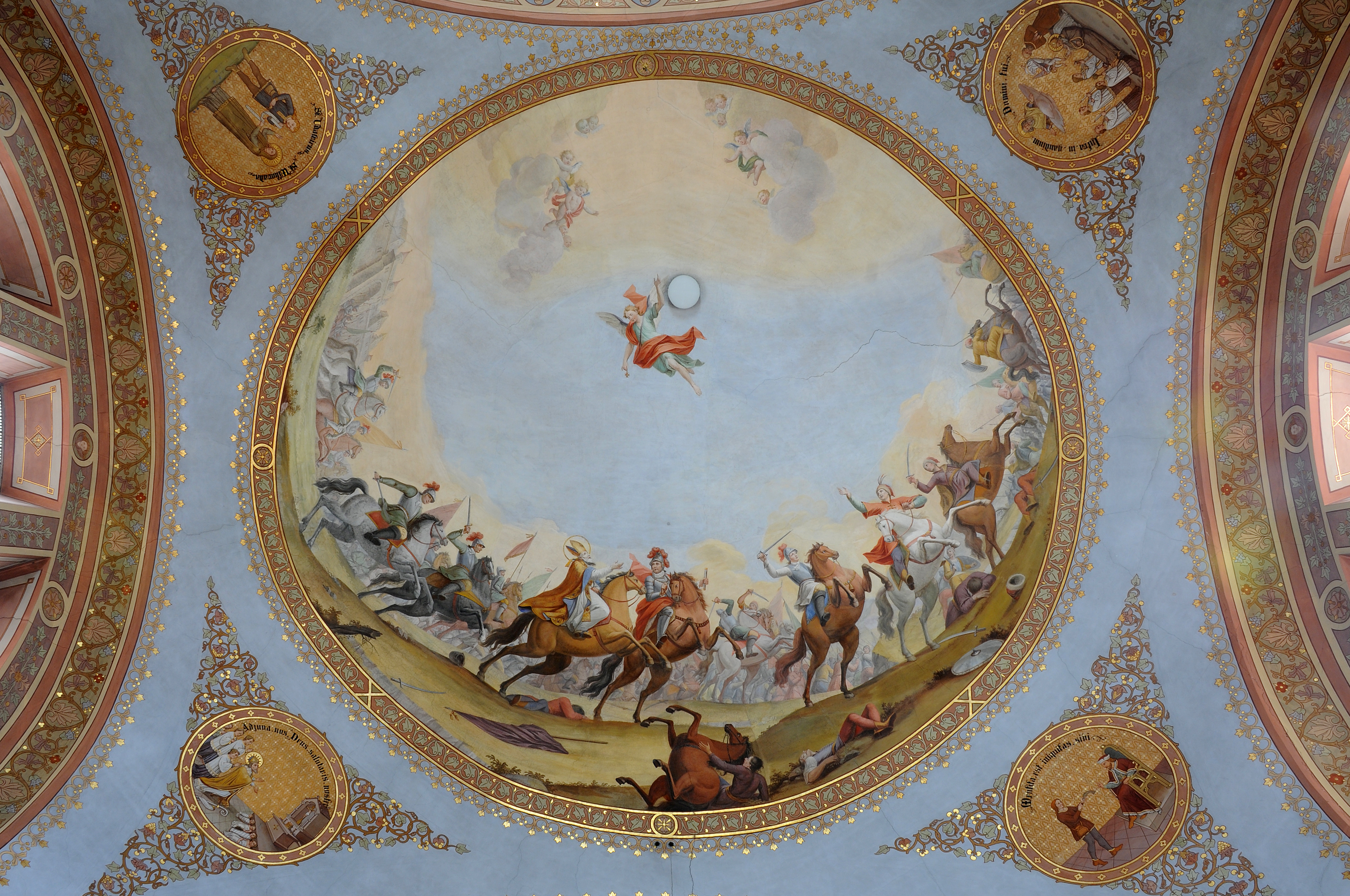 Saint Ulrich from Augsburg in the battle. Fresco by Franz Xaver Kirchebner in the Parish church of St. Ulrich in Gröden- built in the late 18th century.